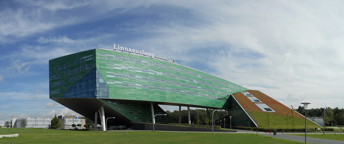 Linnaeusborg, Universiity of Groningen